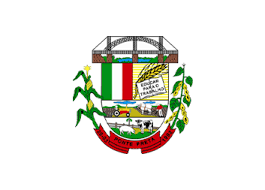 Flag of the city of Ponte Preta , Rio Grande do Sul, Brazil.